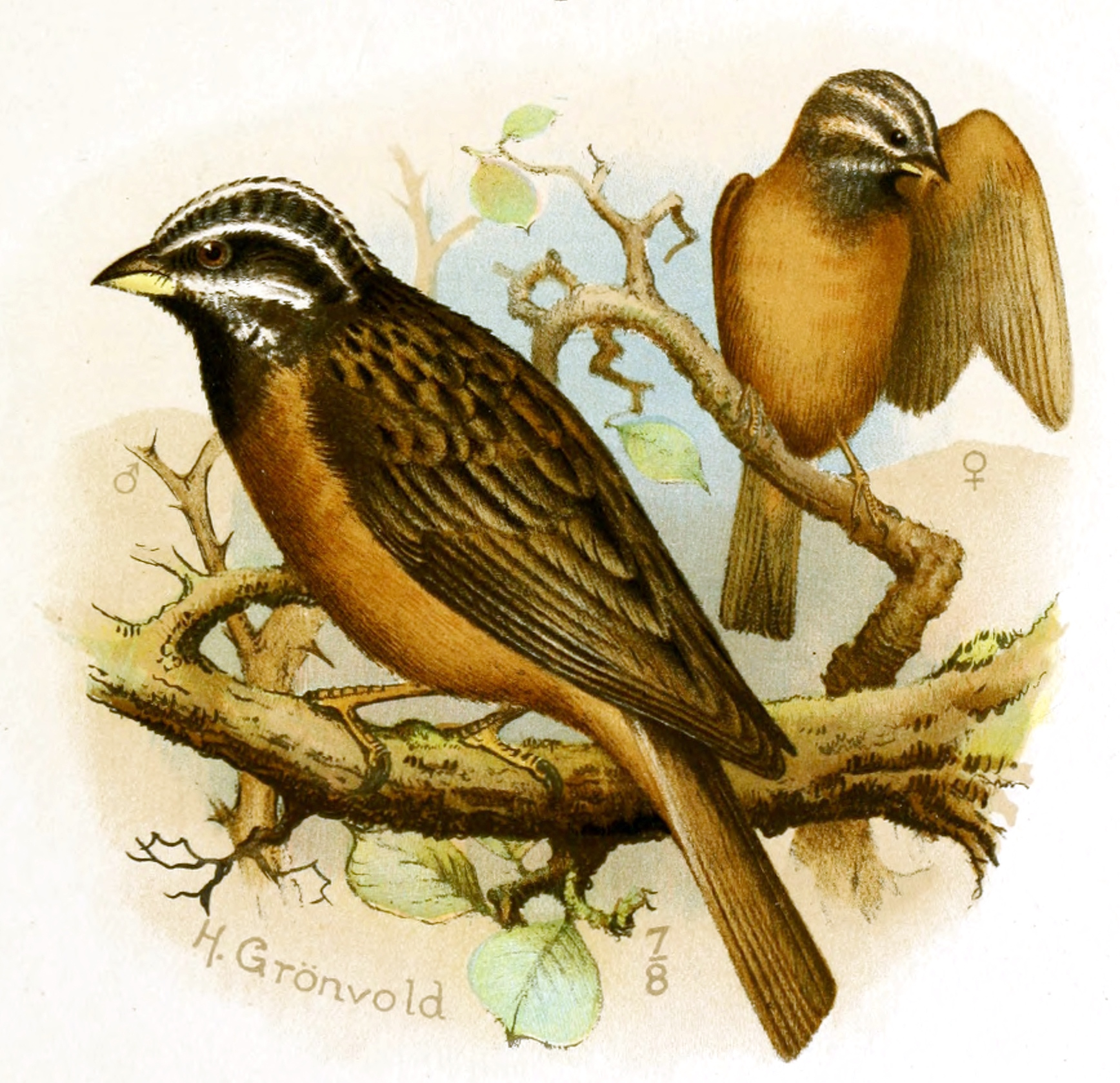 Fringillaria insularis (now Emberiza tahapisi insularis), from The Natural History of Sokotra and Abd-el-Kuri